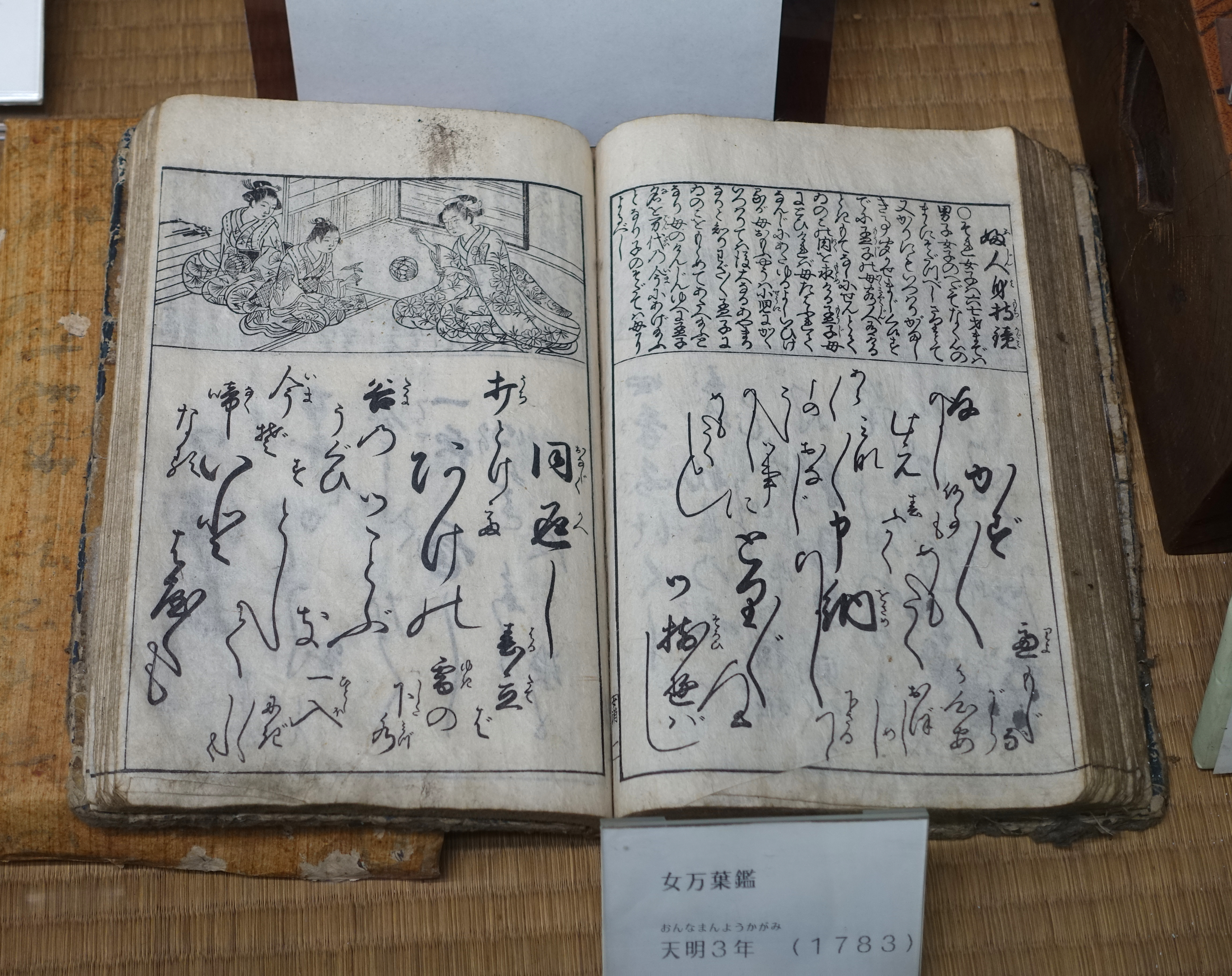 Exhibit in the Hirata Folk Art Museum - Takayama, Gifu, Japan.